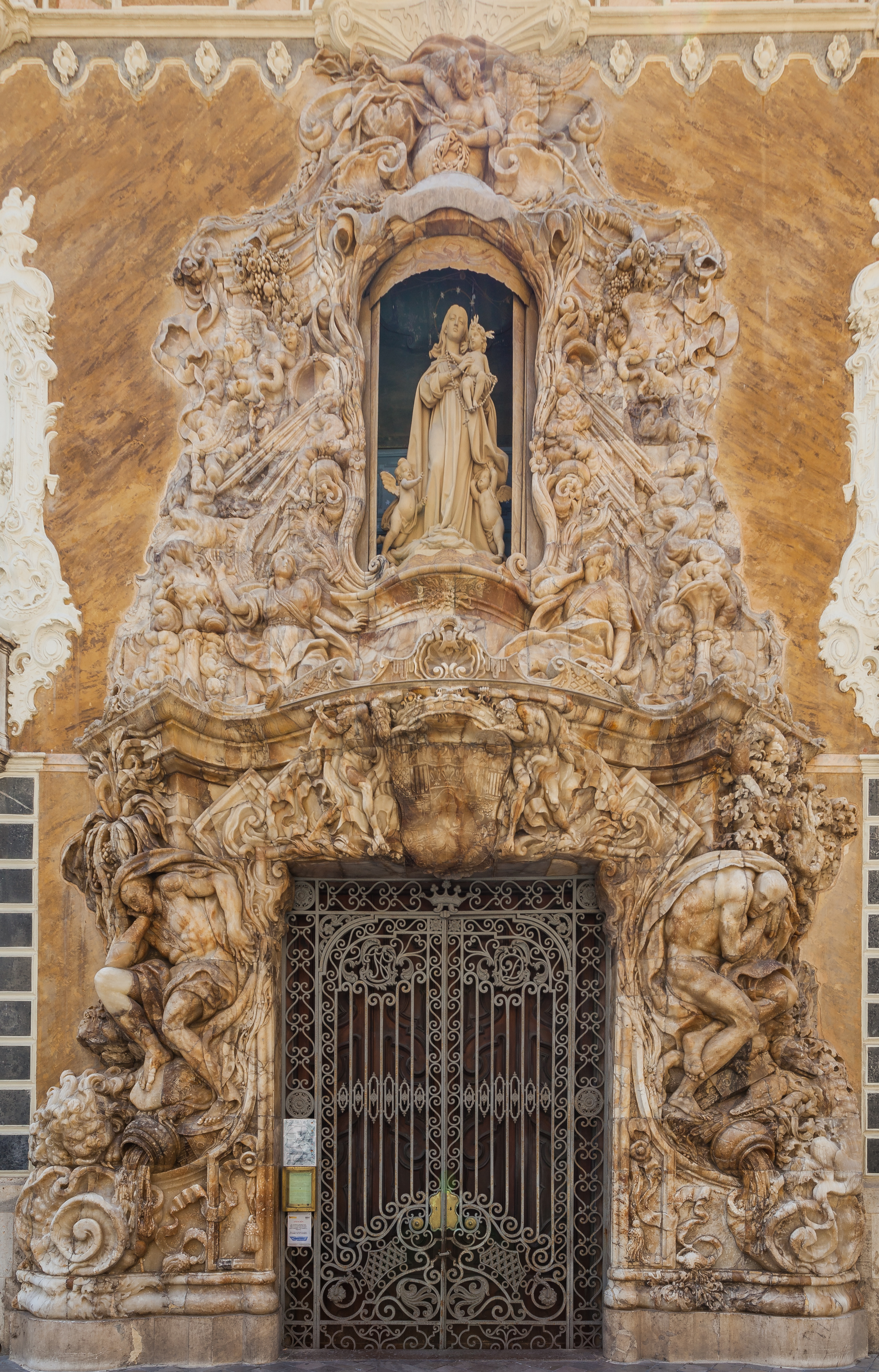 National Museum of Pottery, Valencia, Spain